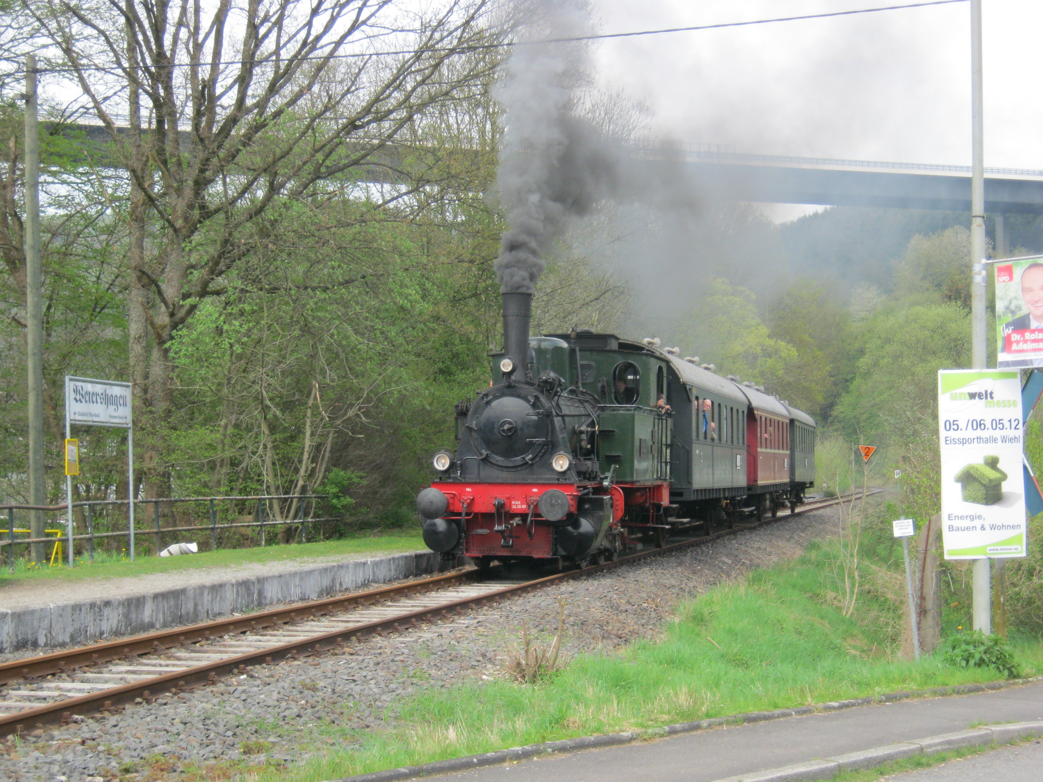 At the photo you can see the train "Bergischer Löwe" in Weiershagen. He is pulled by the locomotive Waldbröl.